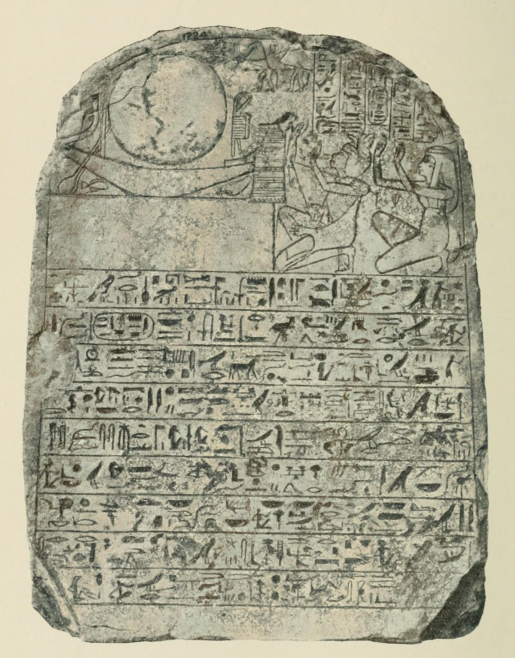 Funerary stele of the High Priest of Amun Iuwelot, son of Osorkon I. The deceased is depicted with her "sister" (wife) T(a)denit(enbast), both worshipping Ra-Horakhty. Limestone (H 1 ft. 11 in.; W 1 ft. 4 in.) from Thebes, 22nd dynasty, Third Intermediate Period. British Museum 1224.